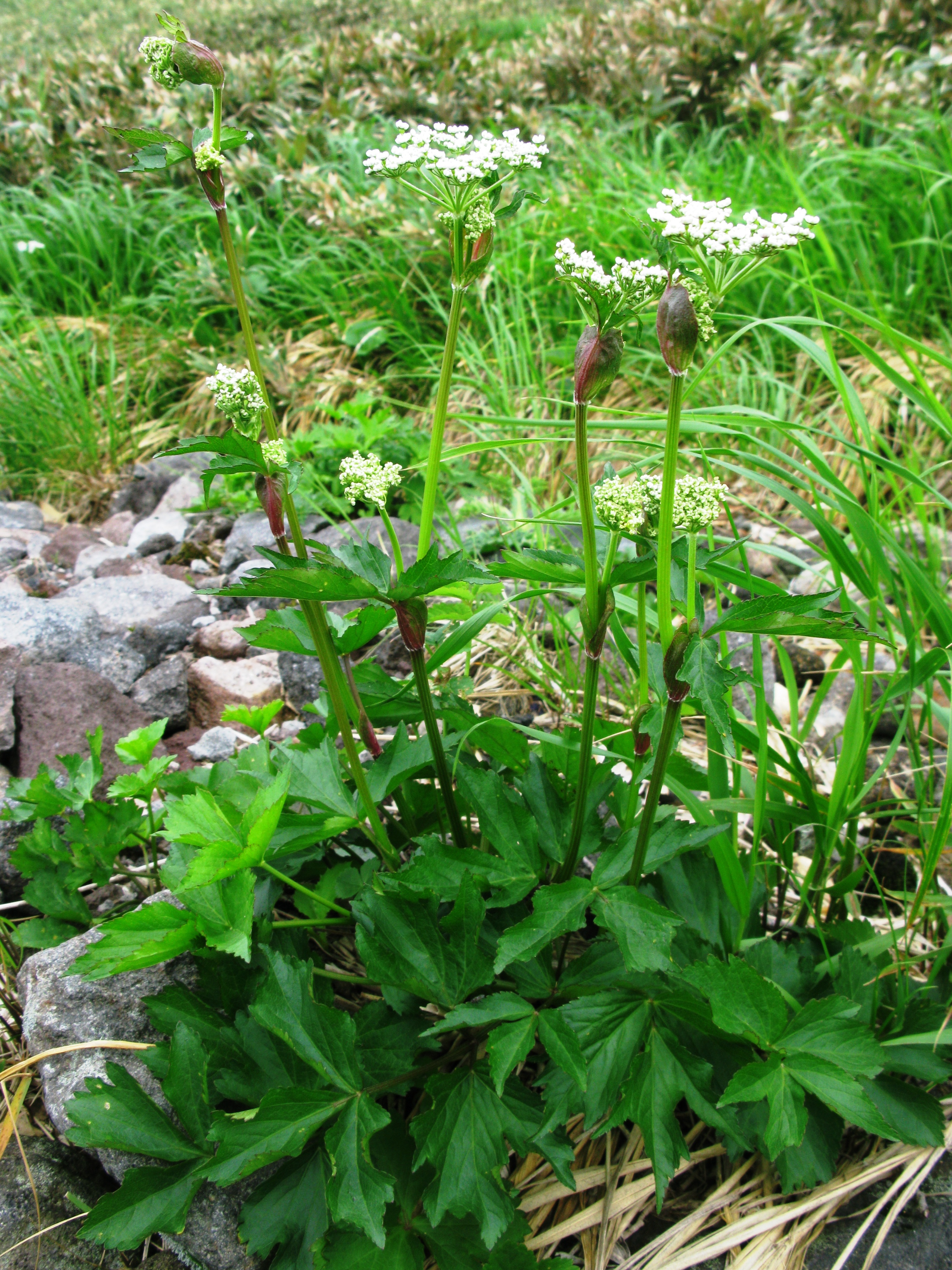 Peucedanum multivittatum, Mount Chōkai, Yamagata pref., Japan